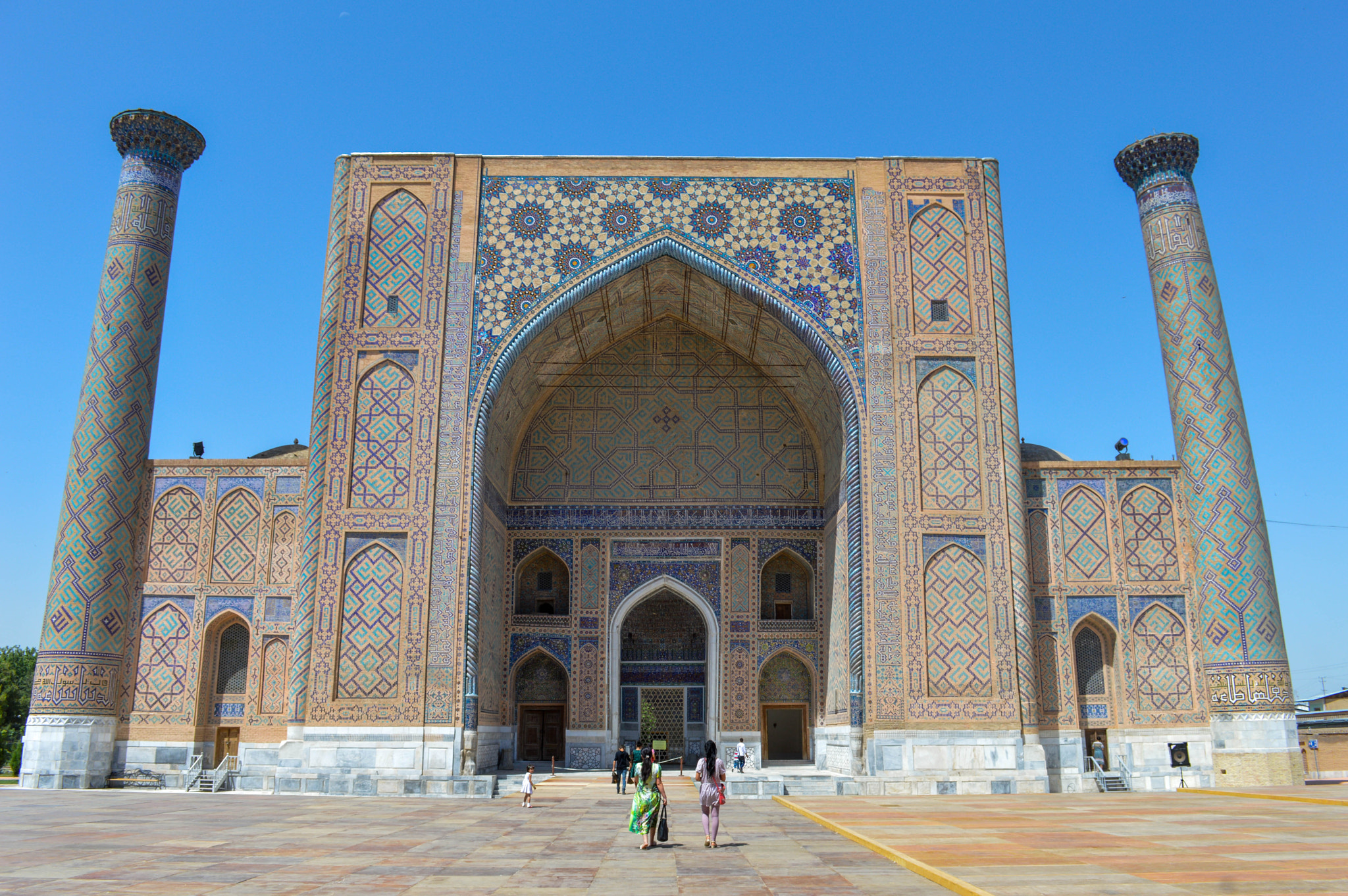 500px provided description: Ulugh Beg Madrasa [#sky ,#travel ,#religion ,#tower ,#old ,#tourism ,#architecture ,#building ,#culture ,#monument ,#arch ,#ancient ,#outdoors ,#dome ,#minaret ,#marble ,#grave ,#mausoleum ,#no person ,#Muslim]